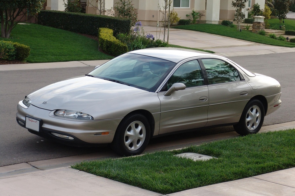 1997 Oldsmobile Aurora V8, 3/4 view